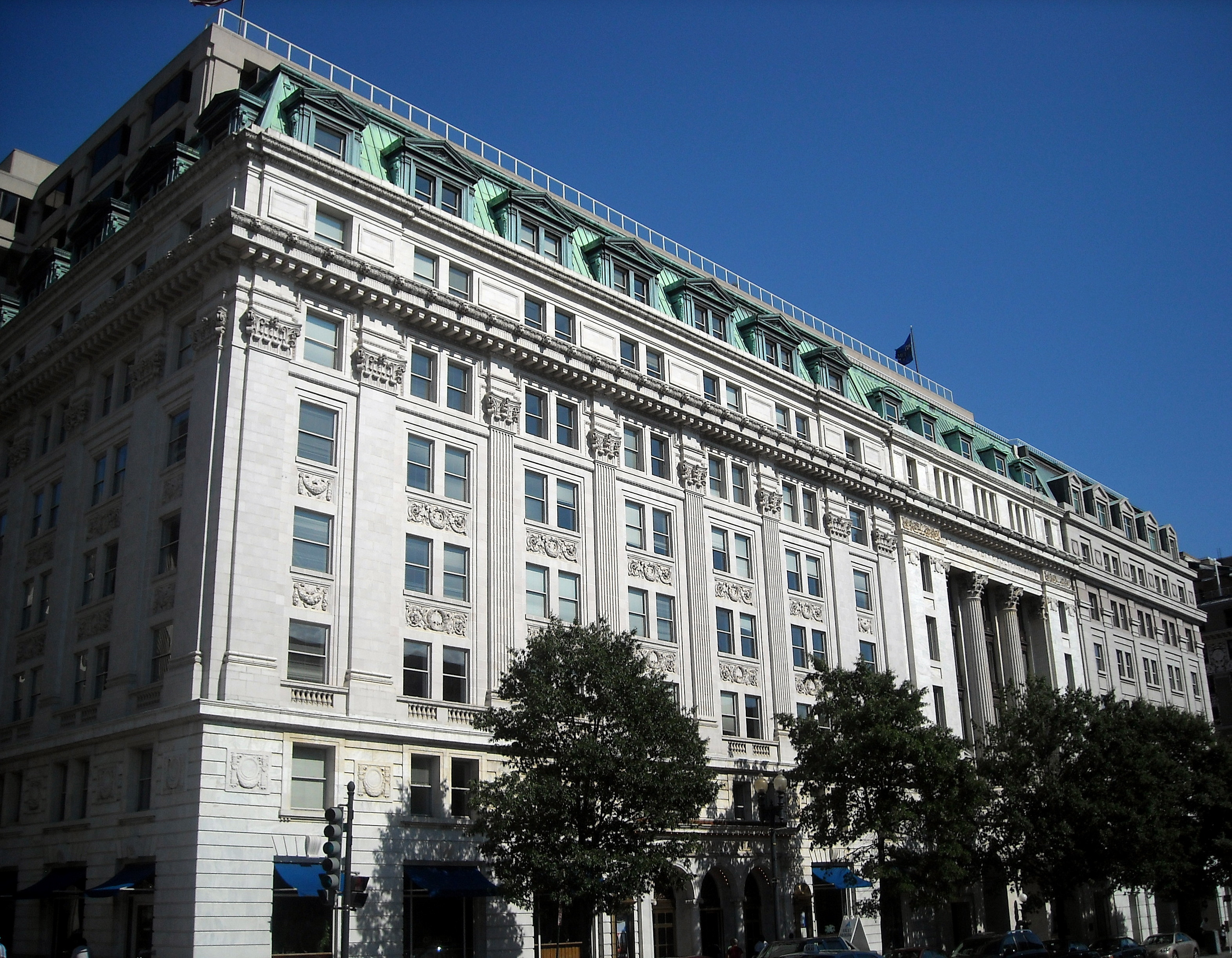 The National Metropolitan Bank Building (now part of the Metropolitan Square complex) located at 613 15th Street, NW in downtown Washington, D.C. It was designed by B. Stanley Simmons in 1905 and is an example of Beaux-Arts architecture. On September 13, 1978, the building was added to the National Register of Historic Places. All but the facade was razed in in 1983, and two Modernist floors (set back from the structure's original mansard roof) added. The new interior and upper floors were design by architect Vlastimil Koubek. It's a contributing property to the Fifteenth Street Financial Historic District.